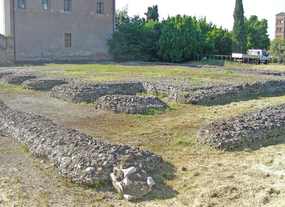 Rome, Palatine hill, remains of the Temple of Elagabalus (Vigna Barberini)